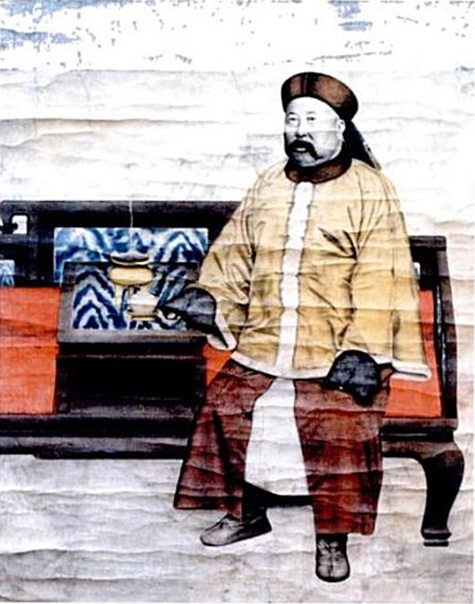 Portrait of Chinese General Nie Shicheng, killed in 1900 during the Boxer Rebellion